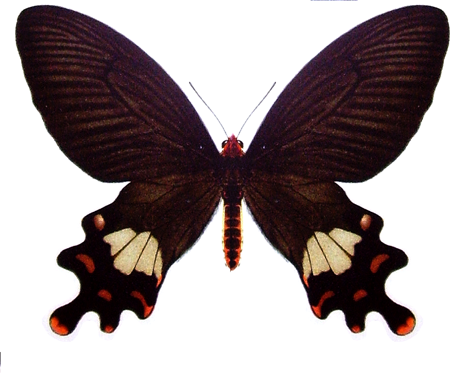 Rose Windmill, female, upperwing